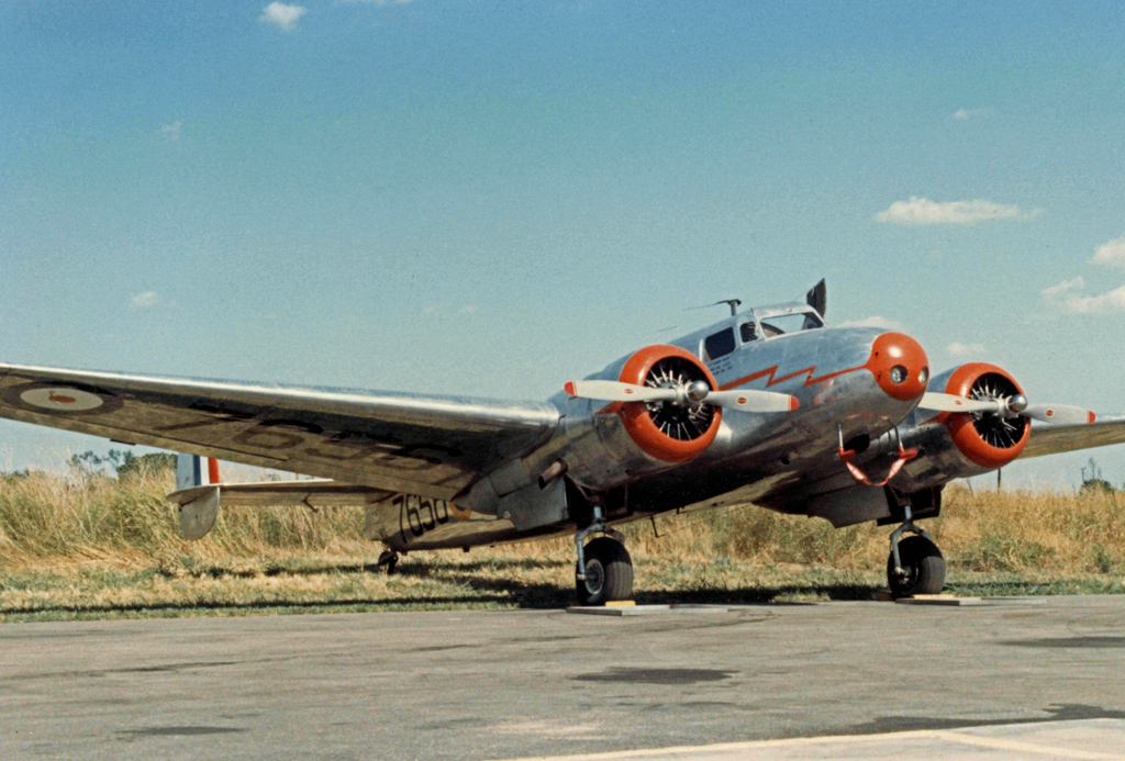 Lockheed 10A N241M in Royal Canadian Air Force markings at Denton Airport, Texas, in 1986. This aircraft was bought new by Bata Shoe in 1936.